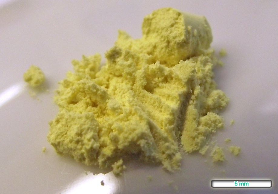 Photo of Doxycycline hyclate, pure